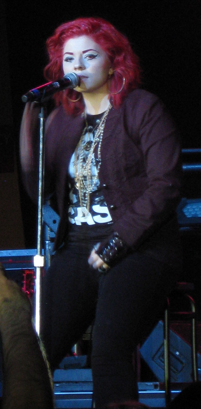 Shiloh performing at the Edmonton Expo Centre.